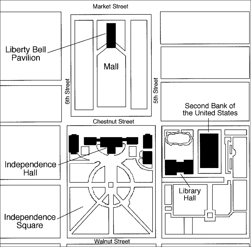 National Park Service map showing Independence Square and the First Block of Independence Mall